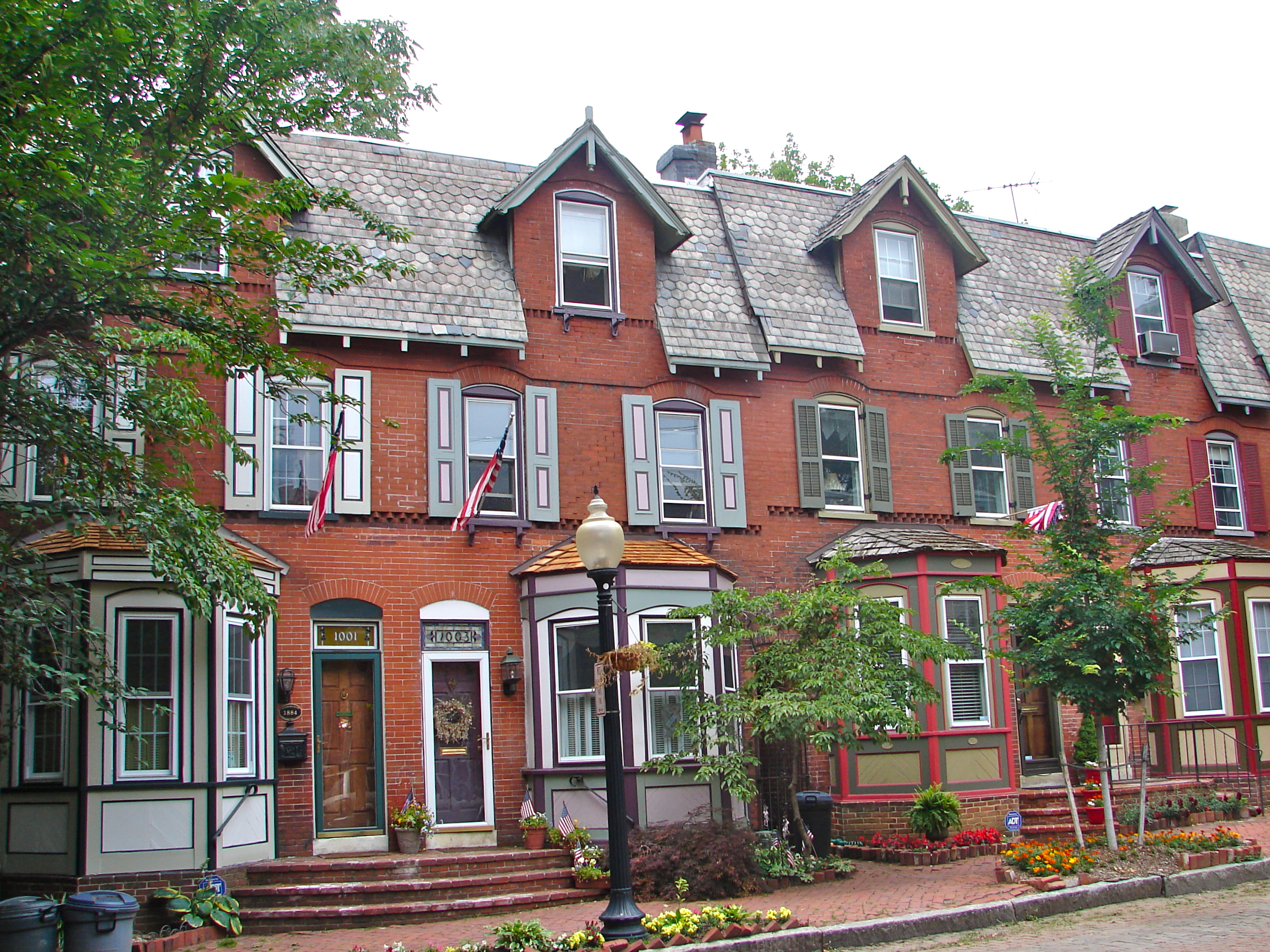 Buildings in Shipley Run Historic District in Wilmington, Delaware. The district is roughly bounded by Adams, 11th, Jefferson, and 7th Sts., Wilmington, New Castle County, Delaware. On the NRHP since August 9, 1984 Buildings here are on Monroe Street including 1001, 1003, and probably 1005, 1007 as well. Folks in this part of the district call it TrinityVicinity after nearby Holy Trinity Episcopal Church (also on the NRHP)